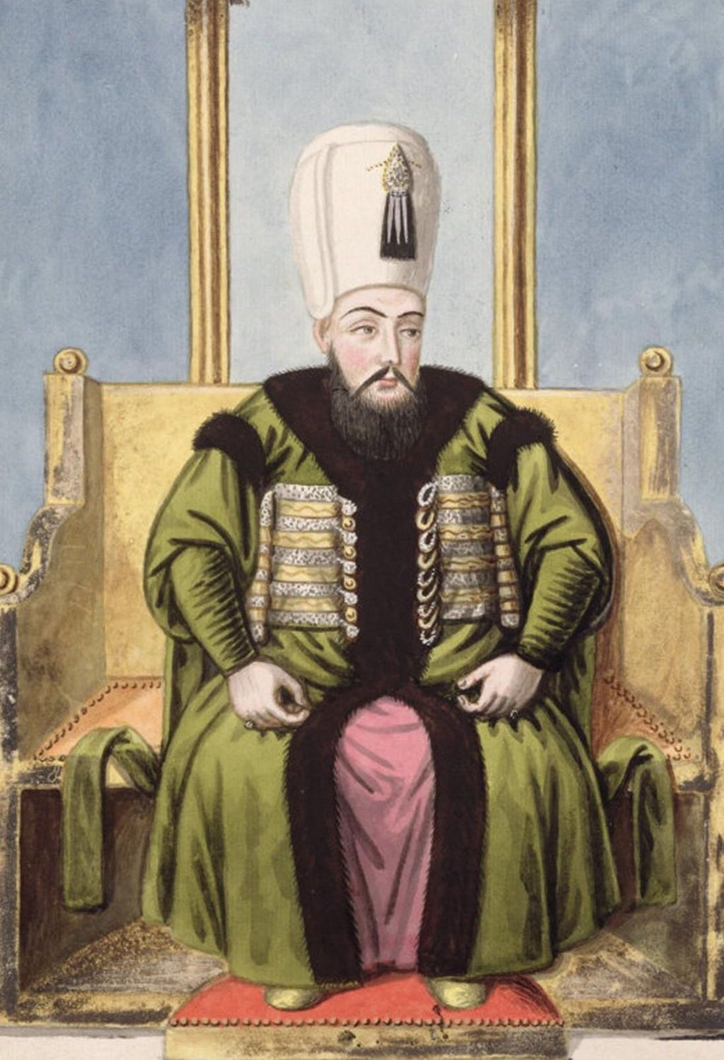 Cropped portrait of Ahmed I, Sultan of the Ottoman Empire (1603-1617)